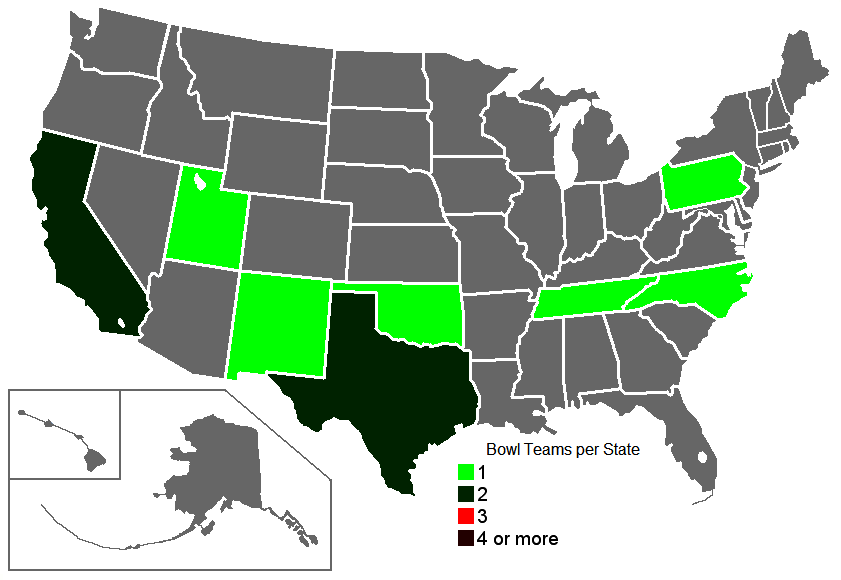 Map showing Bowl teams in 1938.